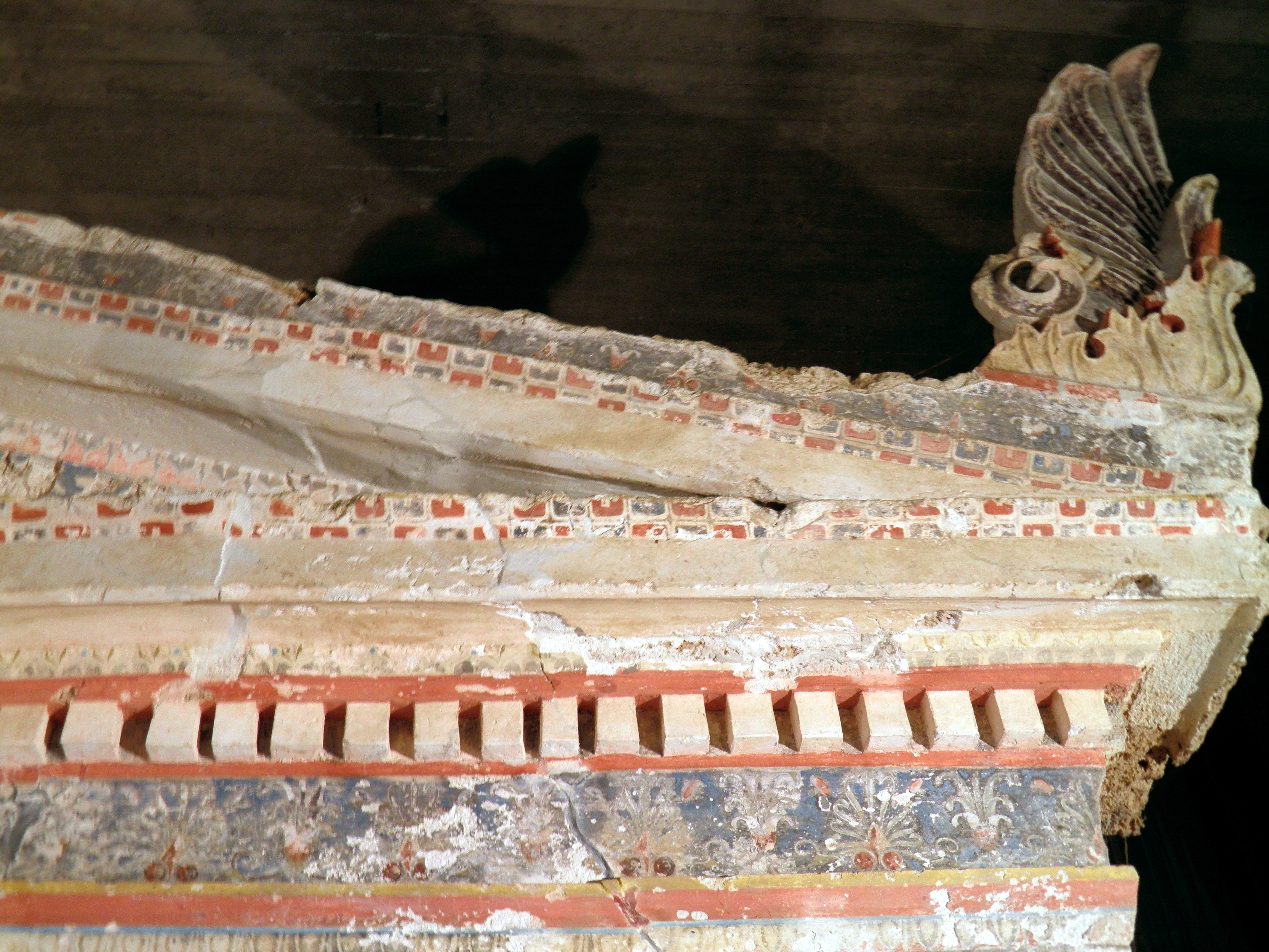 The entrance has crowning mouldings on the interior sides, decorated by coloured Doric and Ionic mouldings and taeniae. There was no dromos leading to the tomb. The present staircase is a modern structure, designed to facilitate visitors and also to support the natural side walls of the excavated trench and prevent the monument from being covered with earth once again. Dimensions of the antechamber: lengh 2, width 408, heigh 5.14m ; dimensions of the main chamber: lengh 5.10, width 4.07, height 4.95m. The facade is 6.25m high, 5.25m wide, and is higher than the roof. The predominant colour on the facade up to the level of the capitals of the Ionic half-columns is white; this is the final thin layer of lime-plaster which was used according to the prevailing custom to cover the surface of the poros blocks, which was full of holes, and make it look like marble. From the level of the capitals upwards a variety of colours is used, the predominant ones being shades of red and blue applied to the individual decorative elements: Ionic and Doric mouldings, frieze, taeniaeeeeem astragals, Lesbian mouldings, and alternating palmettes and lotus flowers, which adorned the raking of the tympanum of the pediment of the Ionic architrave. The pediment ont the facade is crowned by three windblown palmettes with a strong chiaroscuro effect, produced by the deep relief of the leaves and the triangular tongue-heart at its center, with deep blue between the white-ochre and slightly pink leaves, and deep pink and red at the heart in the centre.